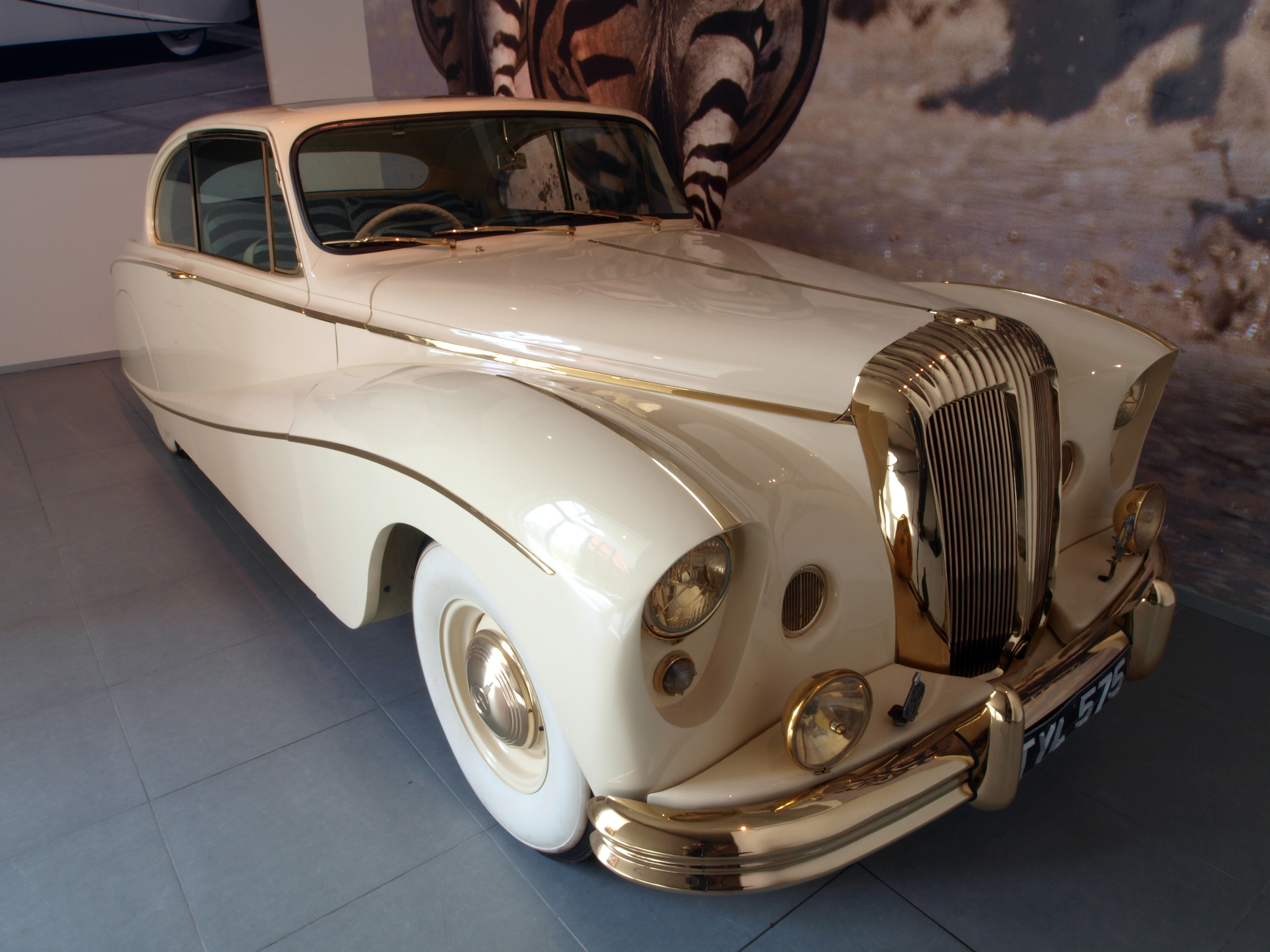 Photographed at the Louwman museum / Louwman Collection, The Netherlands. Daimler DK400 2-dr fixed-head coupé by Hooper & Co for Lady Docker wife of the company's chairman for display at the Earls Court Motor Show October 1955 Painted ivory with all external and internal brightwork gold-plated. Ivory leather trim. Windscreen and roof panel of heat reflecting glass. Built-in cocktail cabinet, vanity box and picnic basket. An ivory-handled folding umbrella. Lady Docker's initials inscribed in gold letters on the door. Mascot - a golden zebra. Real zebra-skin upholstery "because mink is too hot to sit on".